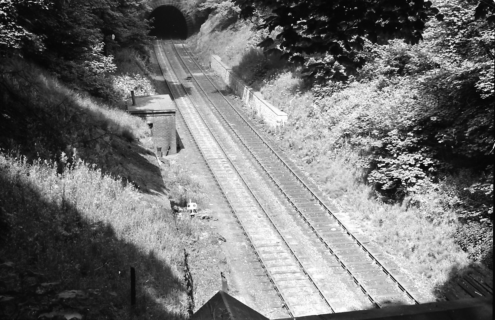 This view shows the section of railway line between the middle and south Harecastle railway tunnels; the north portal of the south tunnel is in the foreground. Photo taken shortly before the line and tunnels passed out of use following the opening of a diversionary route through Bathpool Park in 1966